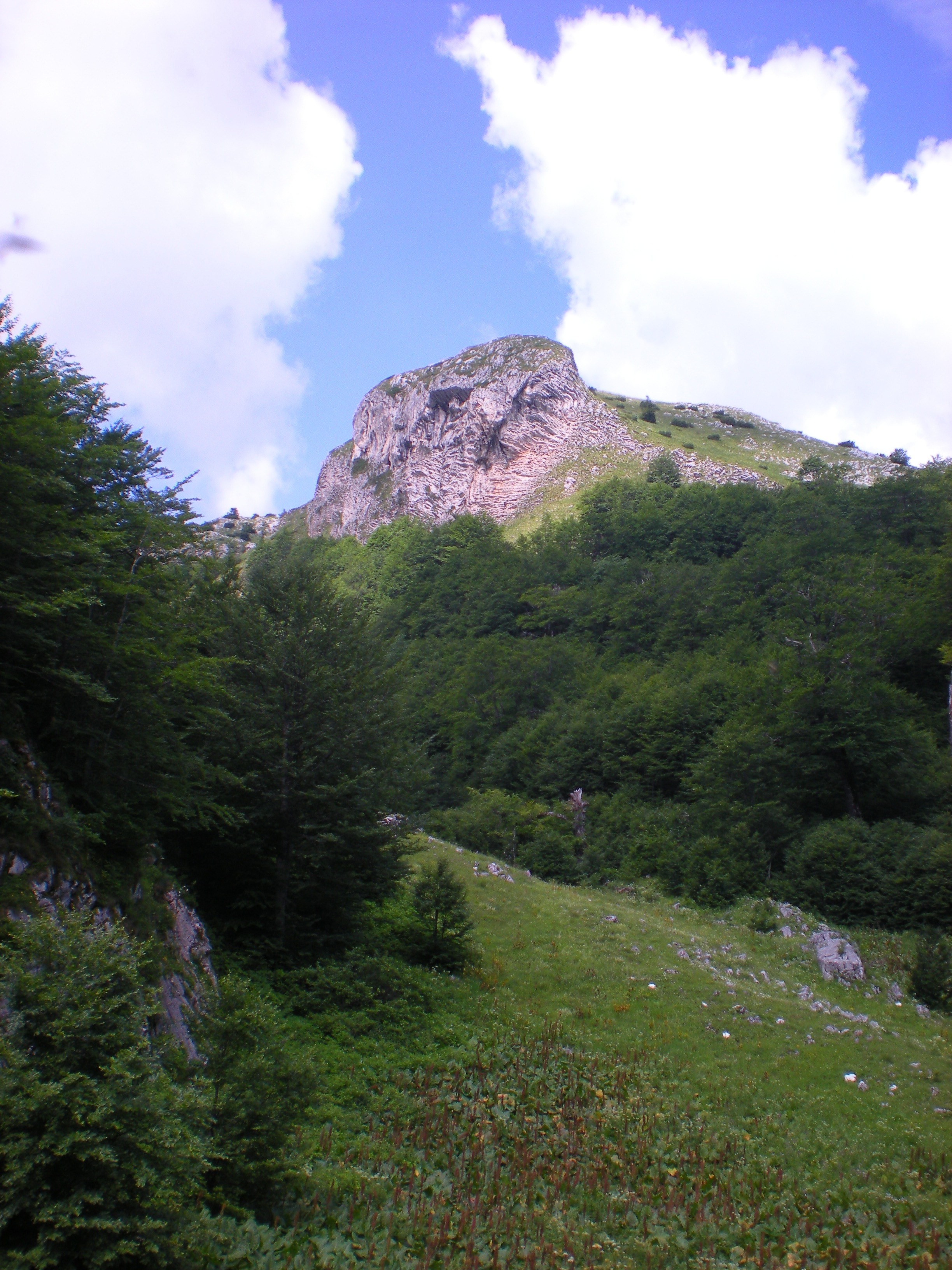 Lelija, near Jablan Vrelo, a water source on the tail to Velika Lelija.